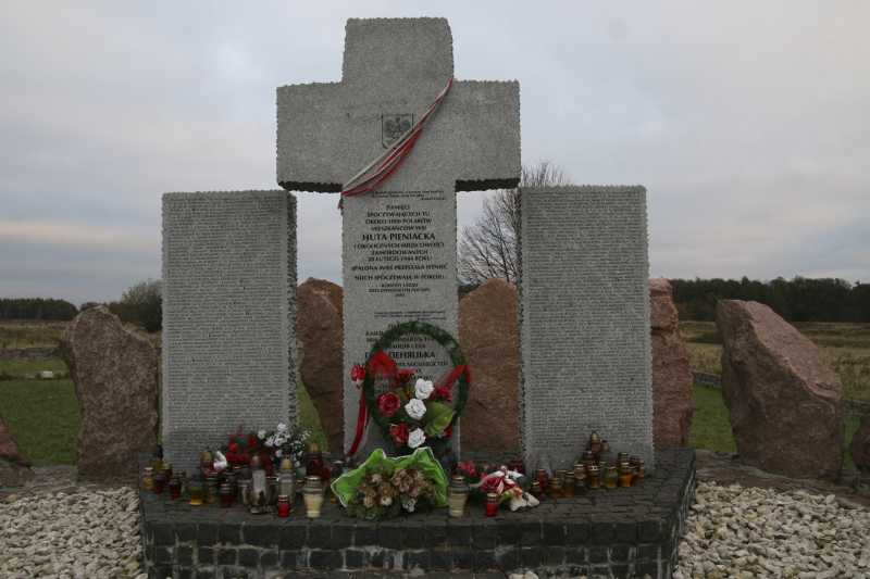 Polish graveyard in Huta Pieniacka, Ukraine